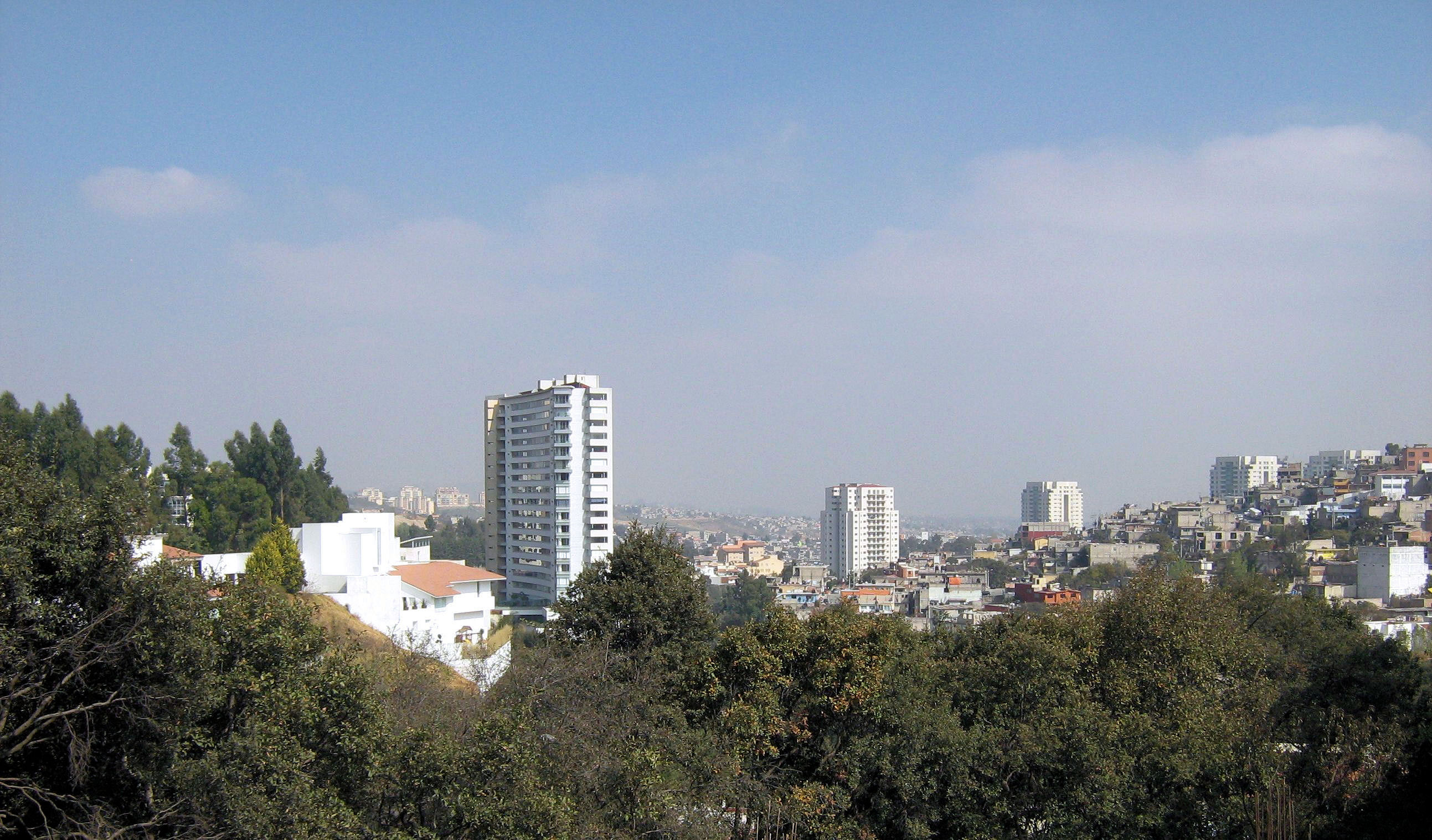 Mexico City seen the west part of the city.